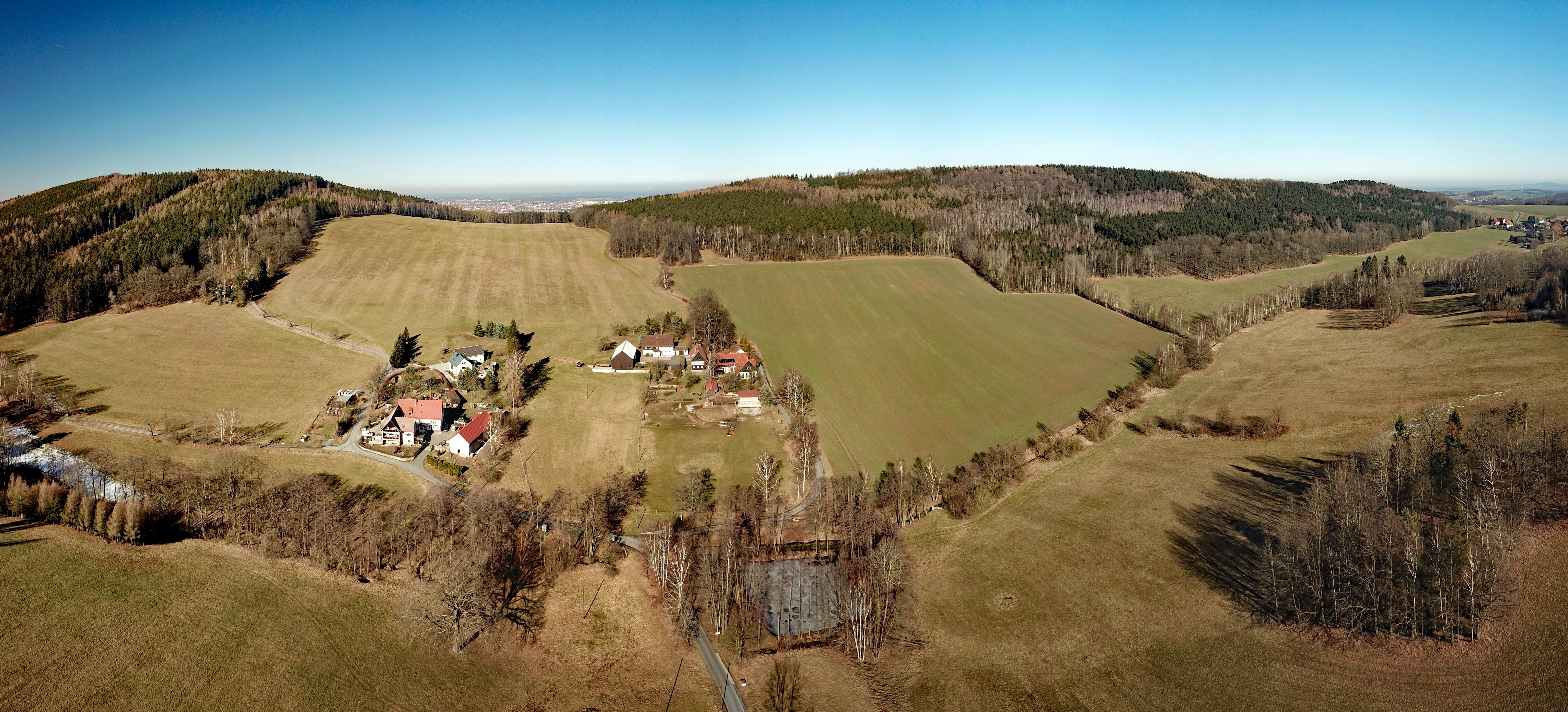 Klein Kunitz, Großpostwitz, Saxony, Germany